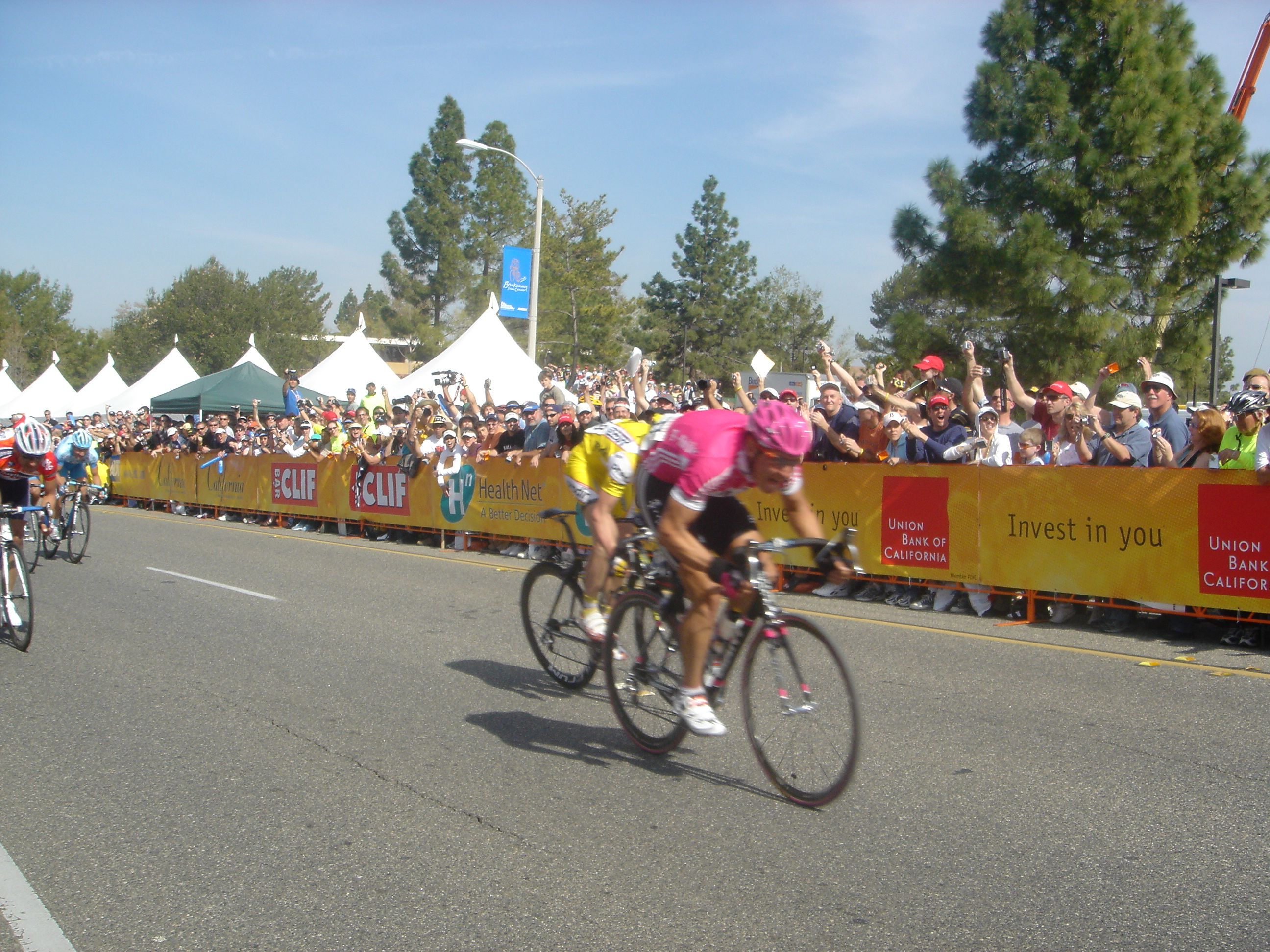 Olaf Pollack taking a stage win in the 2006 Tour of California.